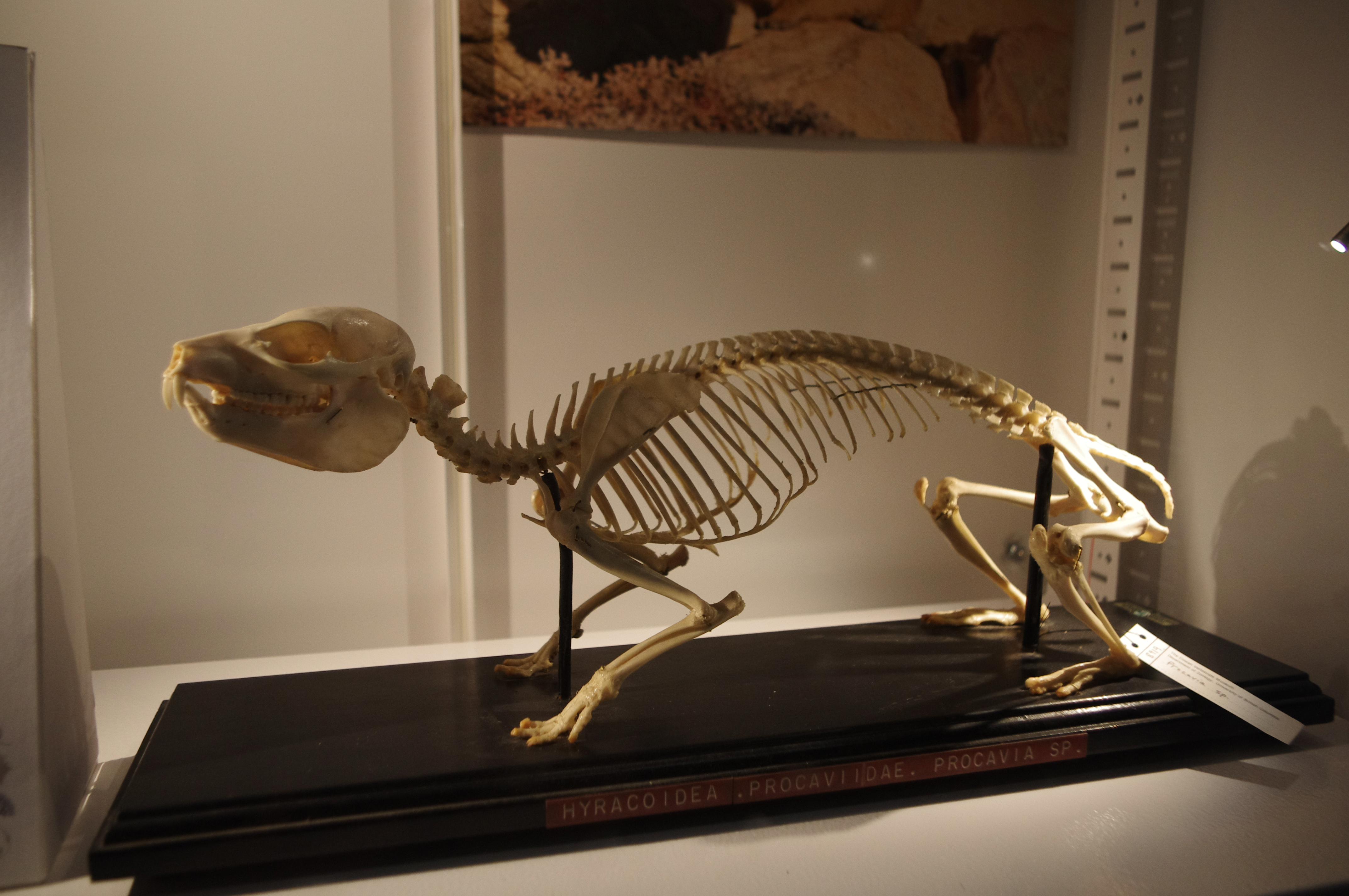 Procavia capensis skeleton at the Beaty Biodiversity Museum